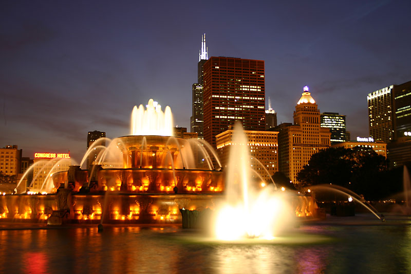 Buckingham Fountain at night. Kelvin Kay, user:kkmd